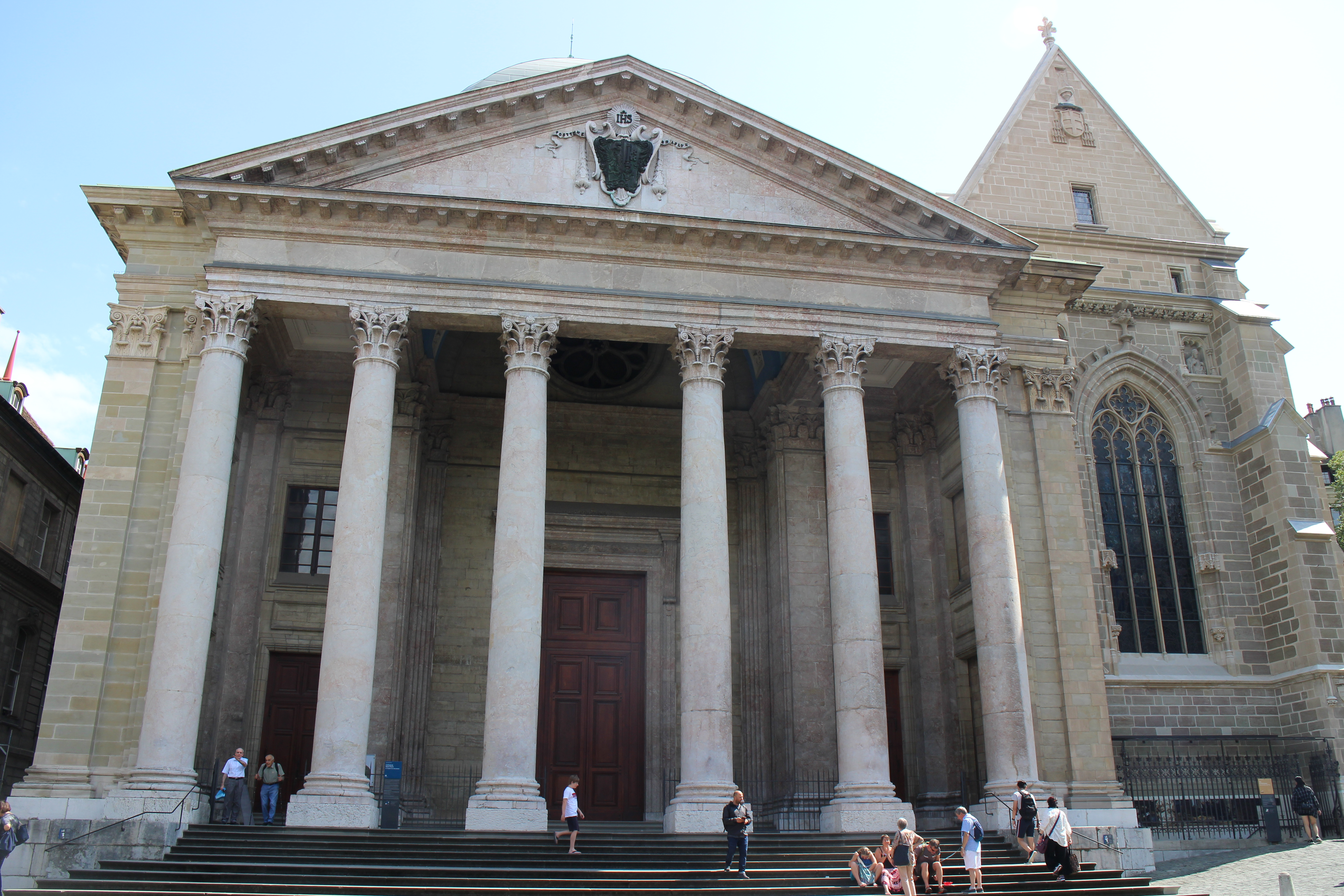 Facade of Saint-Pierre cathedral, Geneva